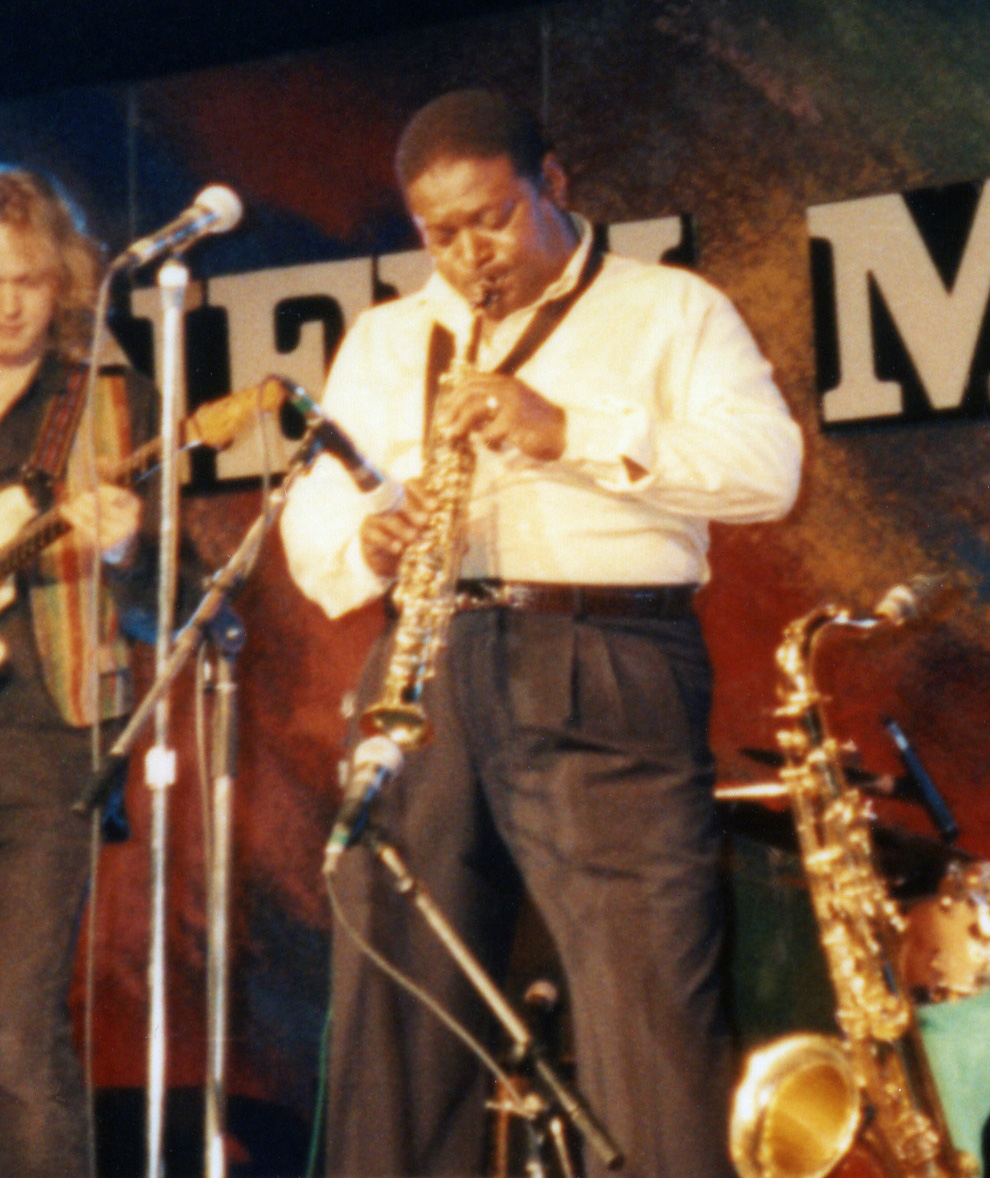 Pee Wee Ellis playing saxophon at a concert in Paris.